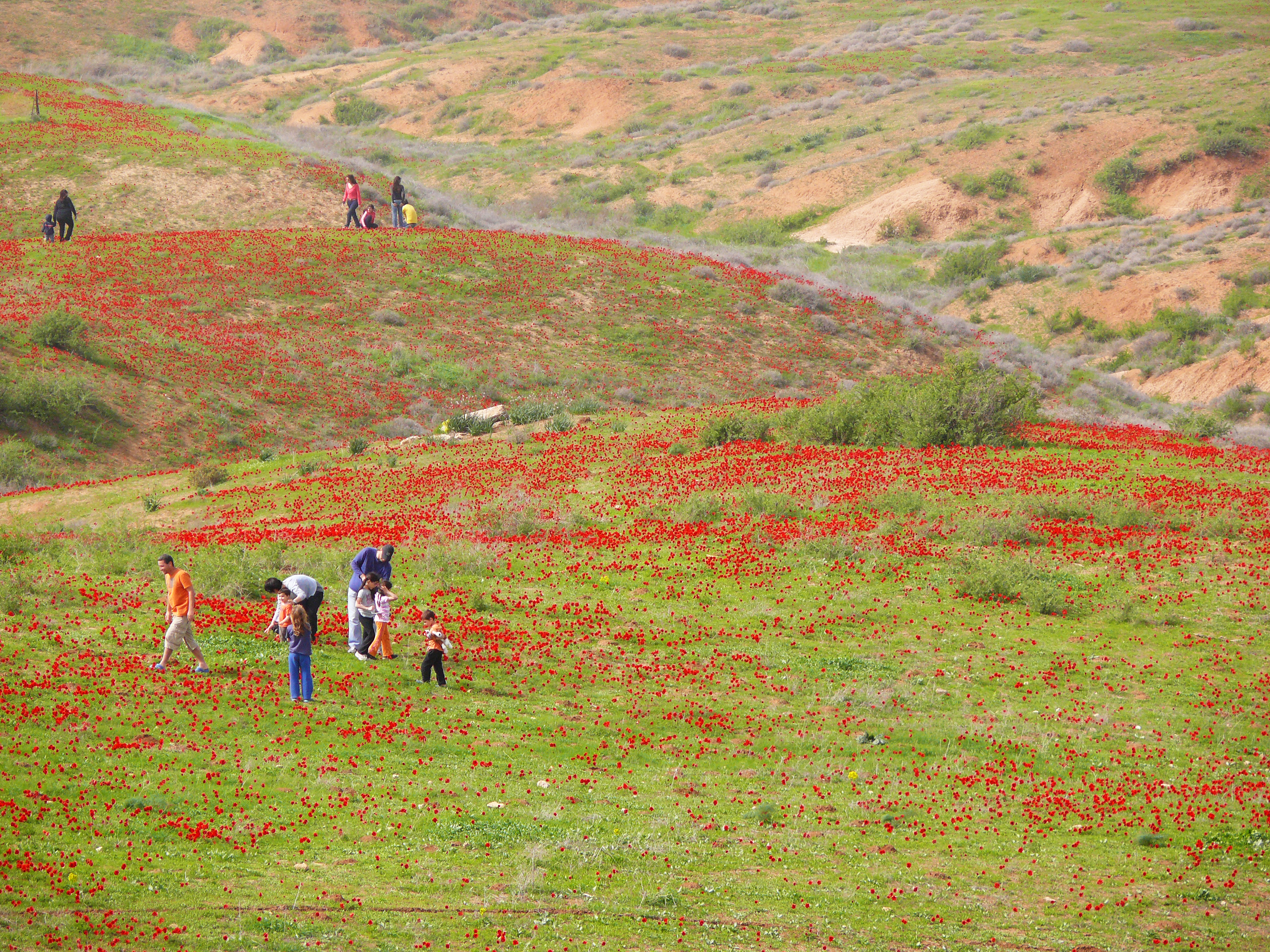 Anemone coronaria in Pura Reserve, Israel